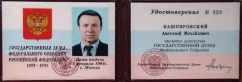 Identity cards - Document of the Deputy of the Russian Parliament (State Duma of the Russian Federation) of the 1st convocation (1993 to 1995) . Anatoly Kashpirovsky